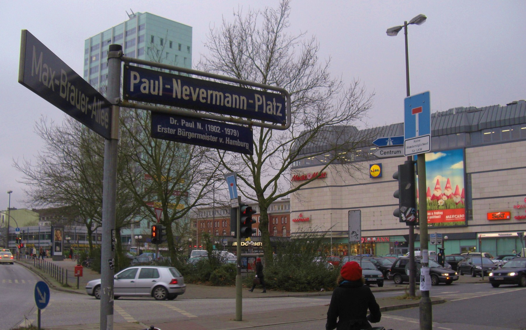 Paul-Nevermann-Platz in Hamburg-Altona, Germany